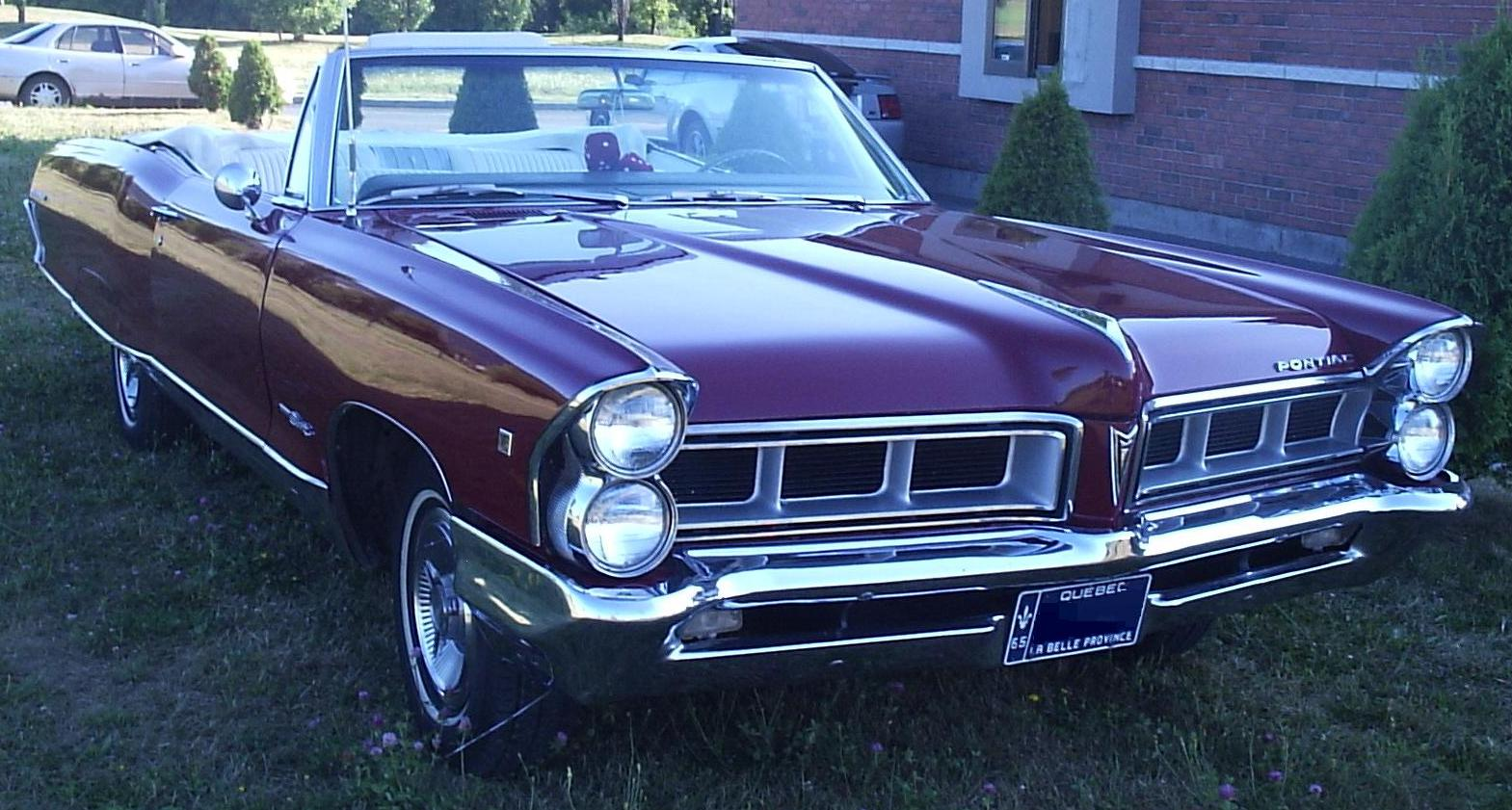 1965 Pontiac Laurentian photographed in Mont St. Hilaire, Quebec, Canada at the Auto classique VAQ Mont St-Hilaire.